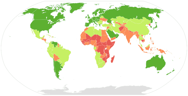 World map illustration of countries income groups in 2014 by nominal Gross National Income (GNI) per capita during fiscal year 2016 (1 July 2015 – 1 July 2016). Data by World Bank. HIGH-income (~$12,736 or more) Upper MIDDLE-income (~$4,126 to $12,735) Lower MIDDLE-income (~$1,046 to $4,125) LOW-income (~$1,045 or less) No data Note: map may contain errors of topographic, geopolitical, data obsolescence nature or other. This map is an approximate representation of 2014's World Bank nominal income data (calculated using the World Bank Atlas method) File name being '2014-2016' is because of the usage of the fiscal year in financial contexts: although World Bank economic indicators refer to the calendar year (2014), in fact it is referred to by the following fiscal year which comprises the 2nd half of the next and the 1st half of the "next after the next" calendar years (2015-2016) Income data by World Bank is effective from mid-year (1 July) thus effective from 1 July 2015 Very small territories may not depicted due to their size or picture resolution Disputed territories between states may be included in the statistics of either the sovereign state(s) administrating them, or of those claiming sovereignty